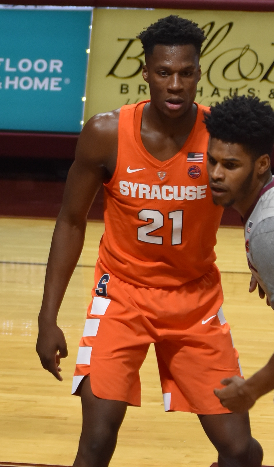 Zach Leday works against Taurean Thompson